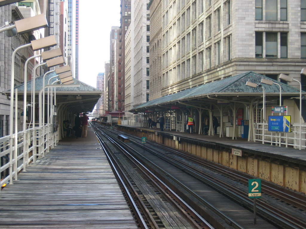 Randolph/Wabash Station in the Chicago Loop